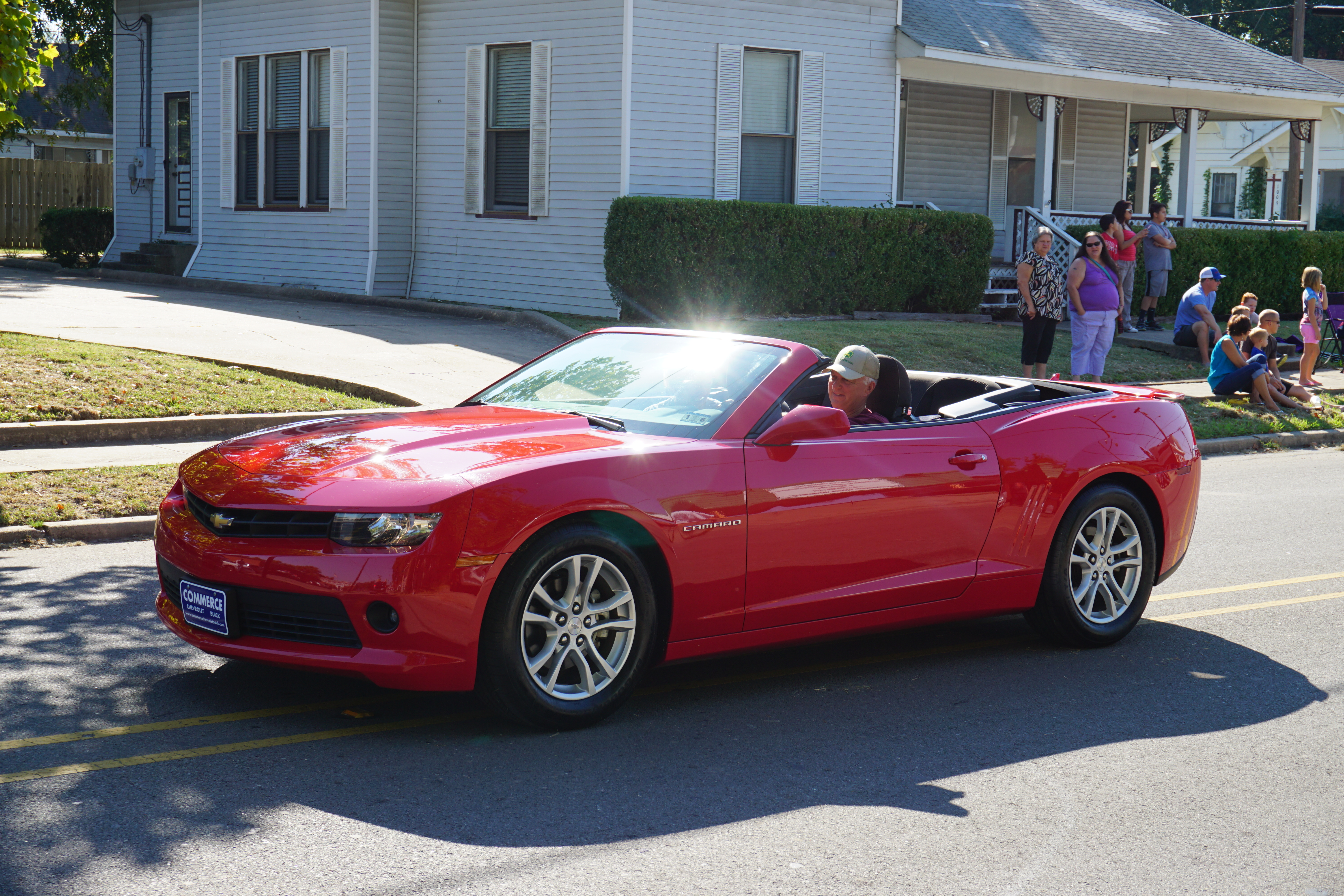 A Chevrolet Camaro in the parade at the 30th Annual Bois d'Arc Bash in Commerce, Texas (United States).